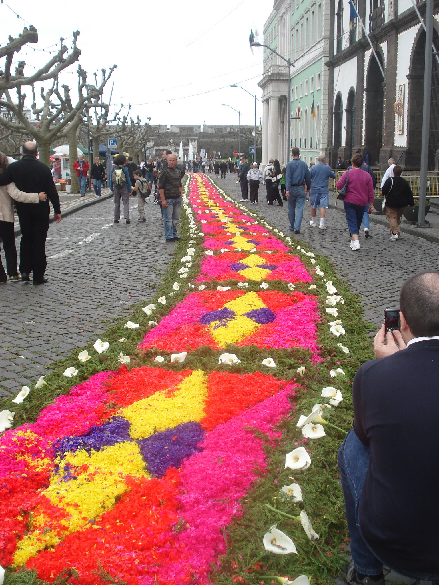 The processional trail, covered in a carpet of plants and flowers in front of the Church of São José, during the festival of Senhora Santo Cristo, in the municipality of Ponta Delgada (Azores), Portugal